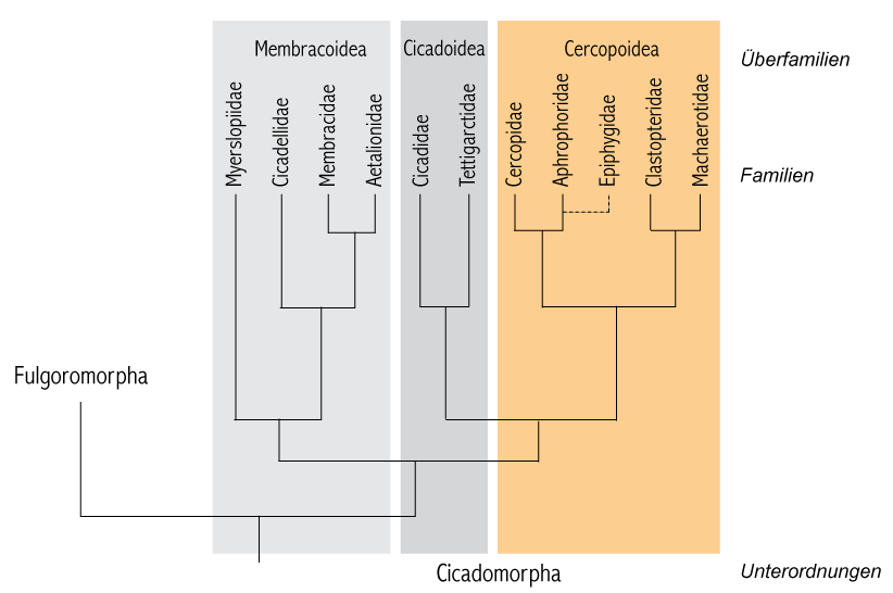 Phylogenetic relationships of Cicadomorpha (after Jason R. Cryan, 2005)